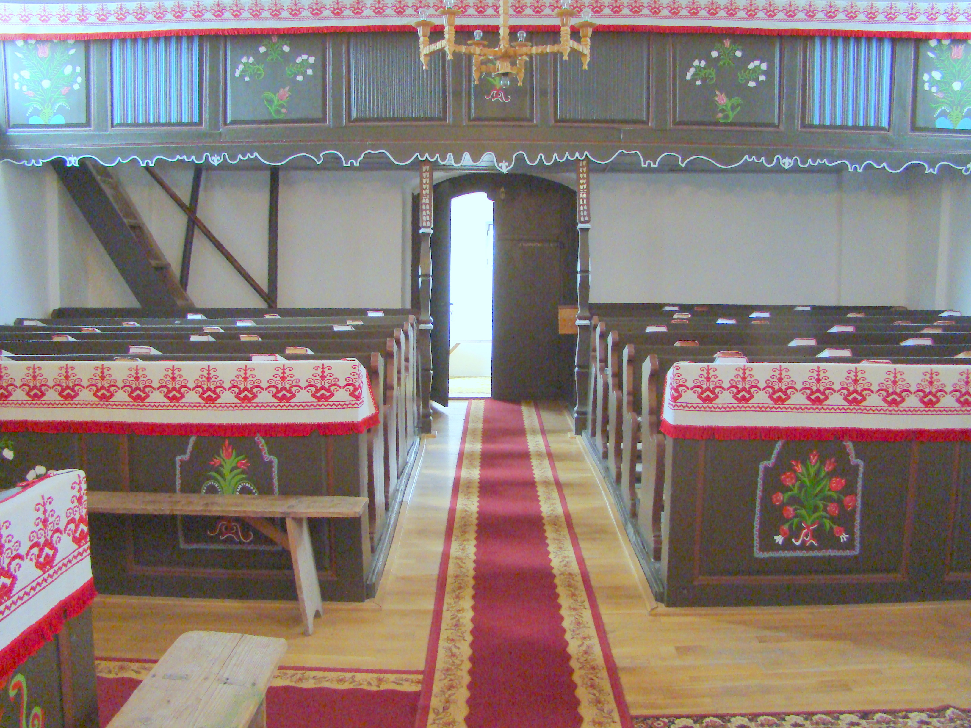 Reformed church in Păltiniș, Harghita county, Romania